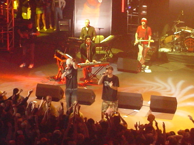 N.E.R.D performing in April 2003.